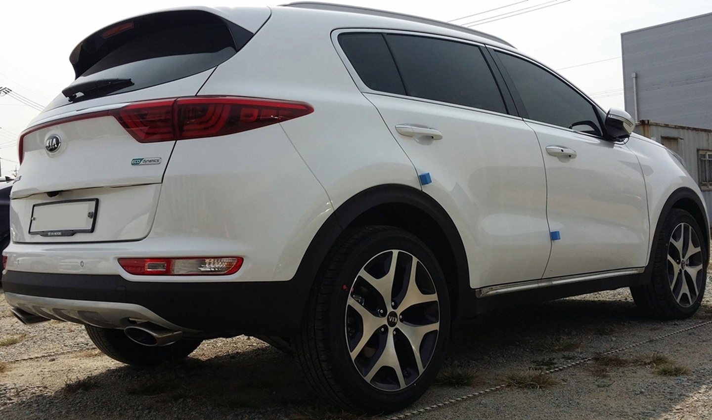 Kia Sportage